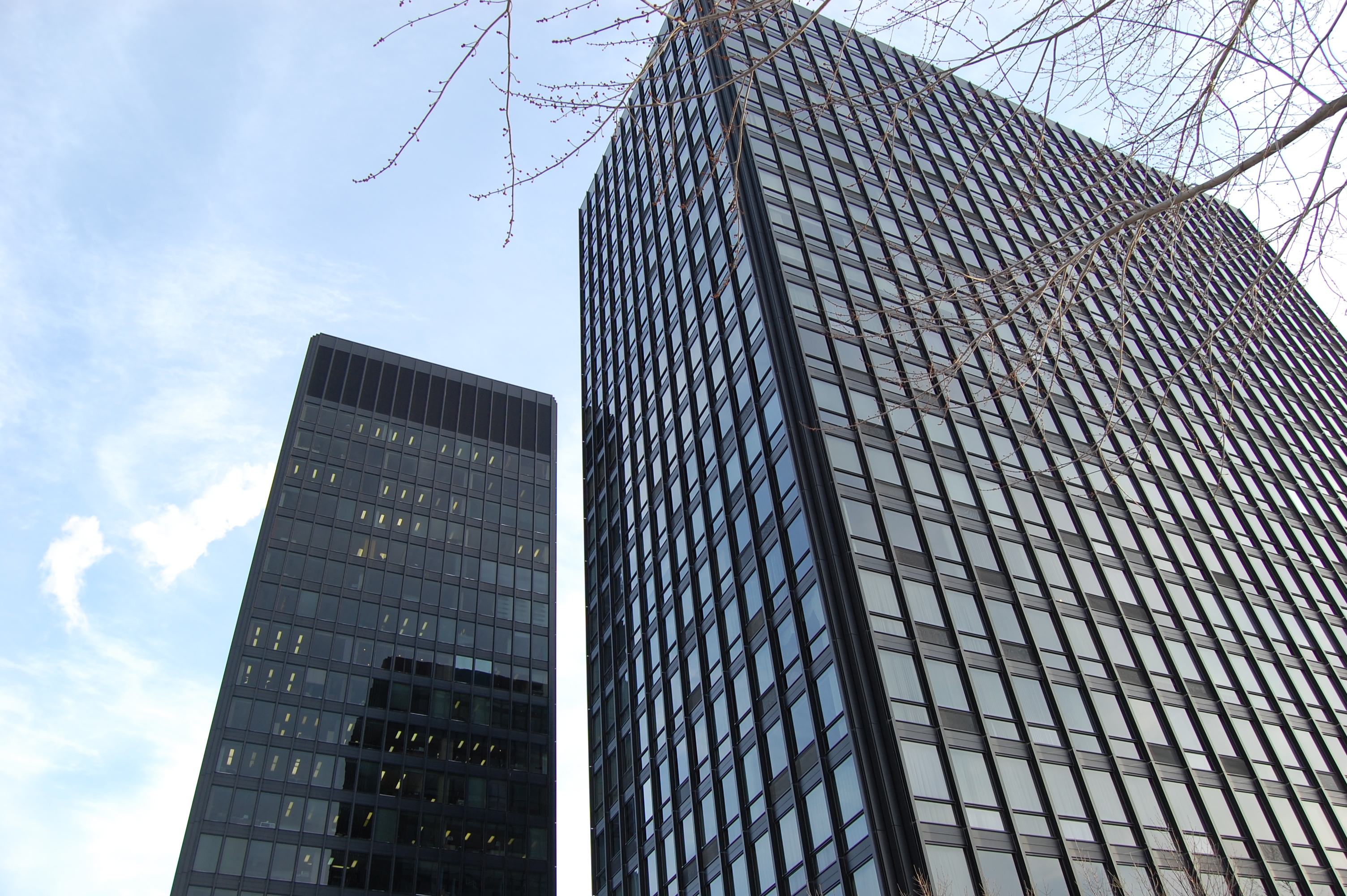 Westmount square in Montreal